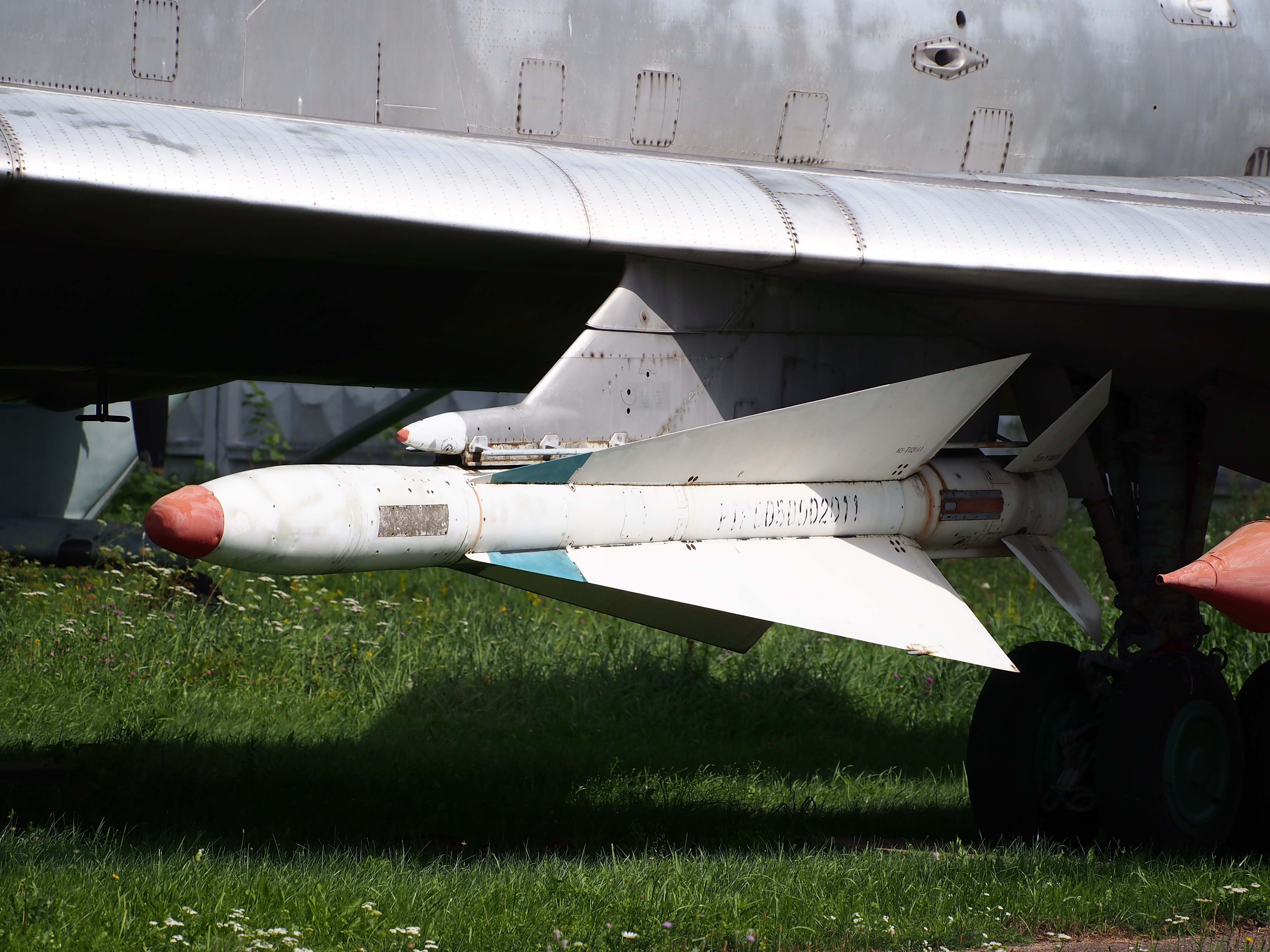 Photographed at the Central Air Force Museum, Monimo, Russia.